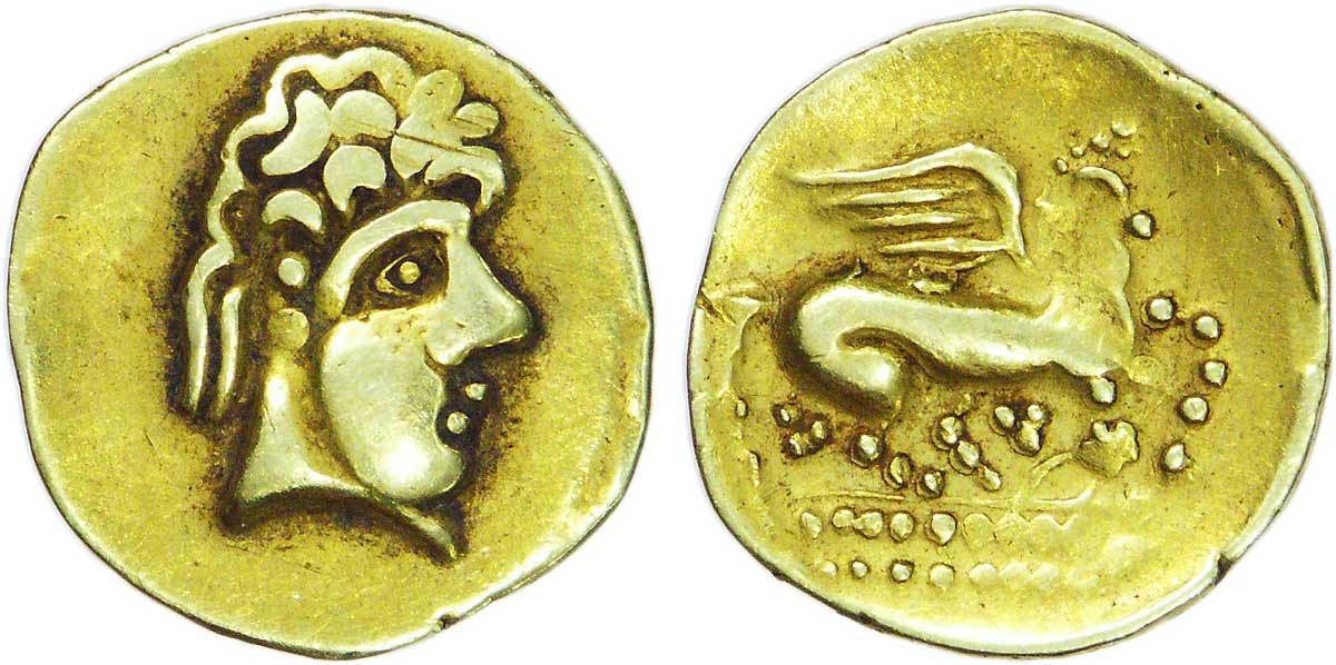 Quart de statère au pégase, or daté du IIe siècle avant J.-C.